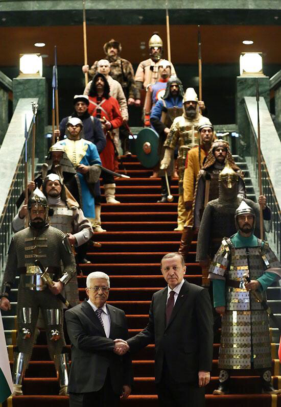 Turkish President Recep Tayyip Erdoğan meeting Palestinian President Mahmoud Abbas in the Turkish presidential palace